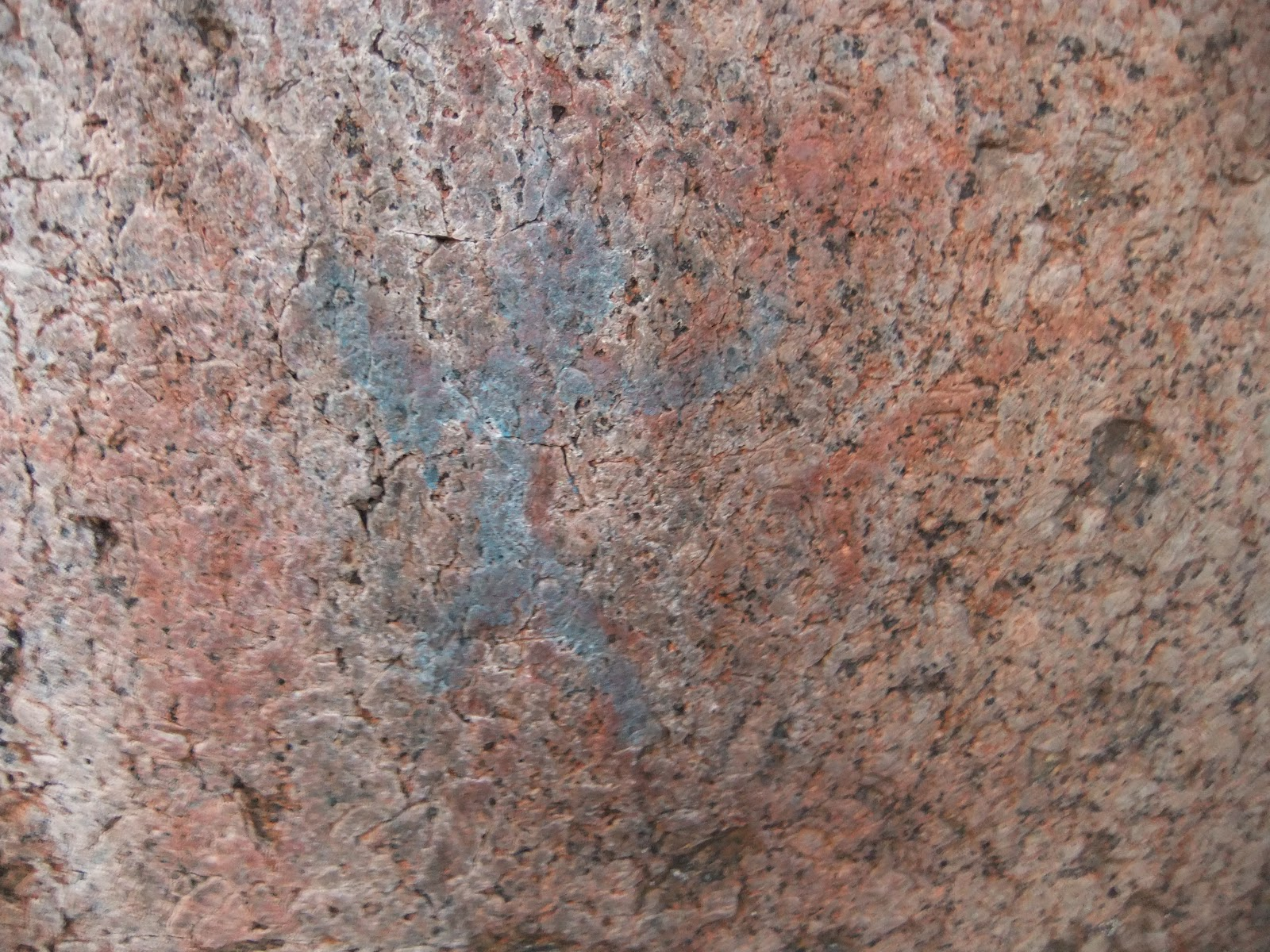 Pakanavuori rock painting at Kouvola, Eastern Finland. The Stone Age / Bronze Age painting was vandalized in 2008 with blue paint.